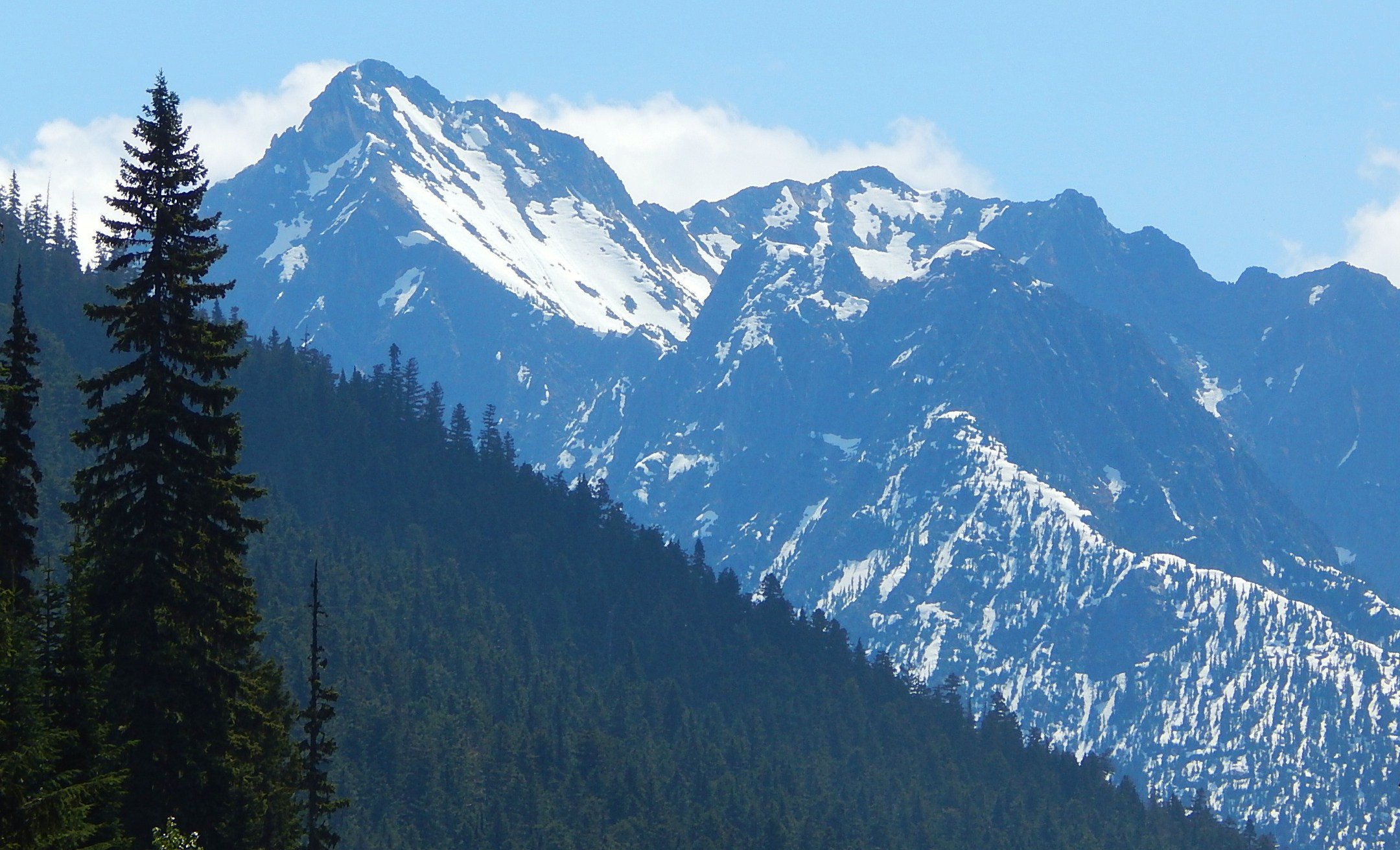 Porcupine Peak 7762' seen from North Cascades Highway